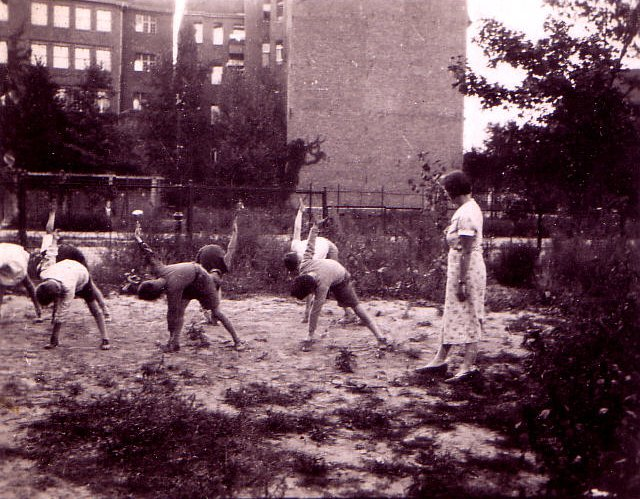 Taken in 1936 in Berlin of my grandmother leading a Gymnastics class in the Jewish school which she taught in. Although alienated from the rest of Germany, the German Jewish community still engaged in educational and wellbeing activities for their children.